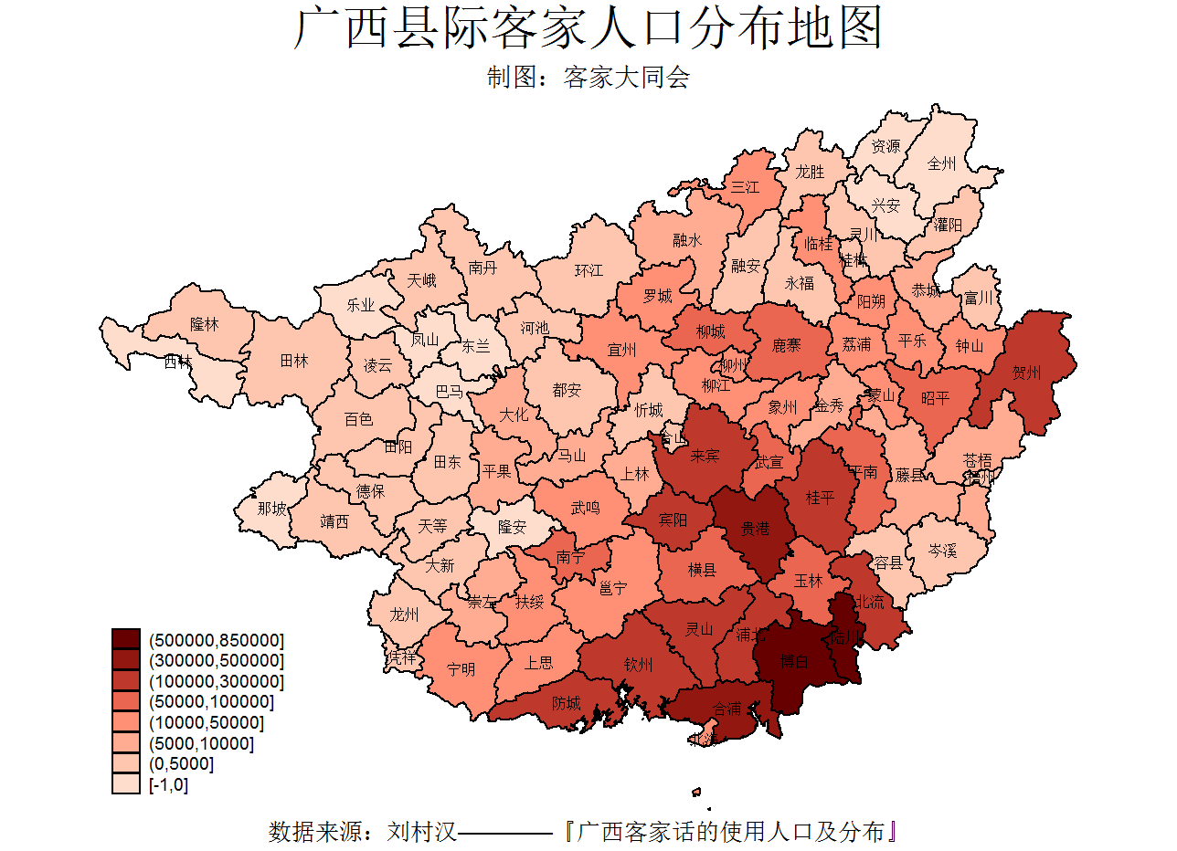 Hakka Population in county level of Guangxi